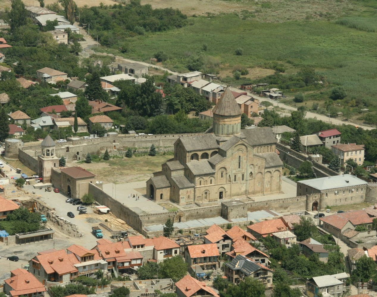 Svetitskhoveli. View from Mt. Bagineti